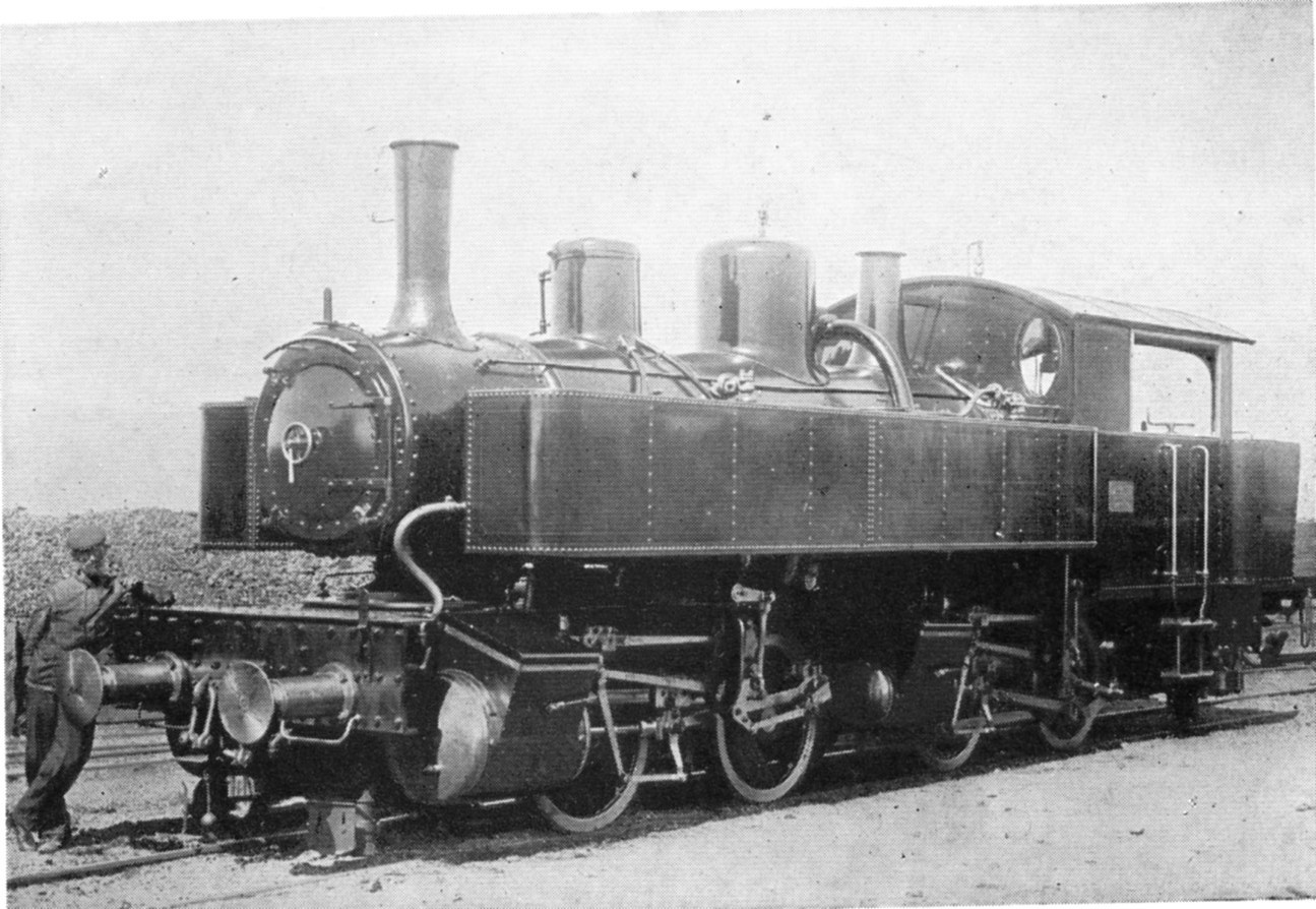 Japan Government Railway type 4500 steam locomotive